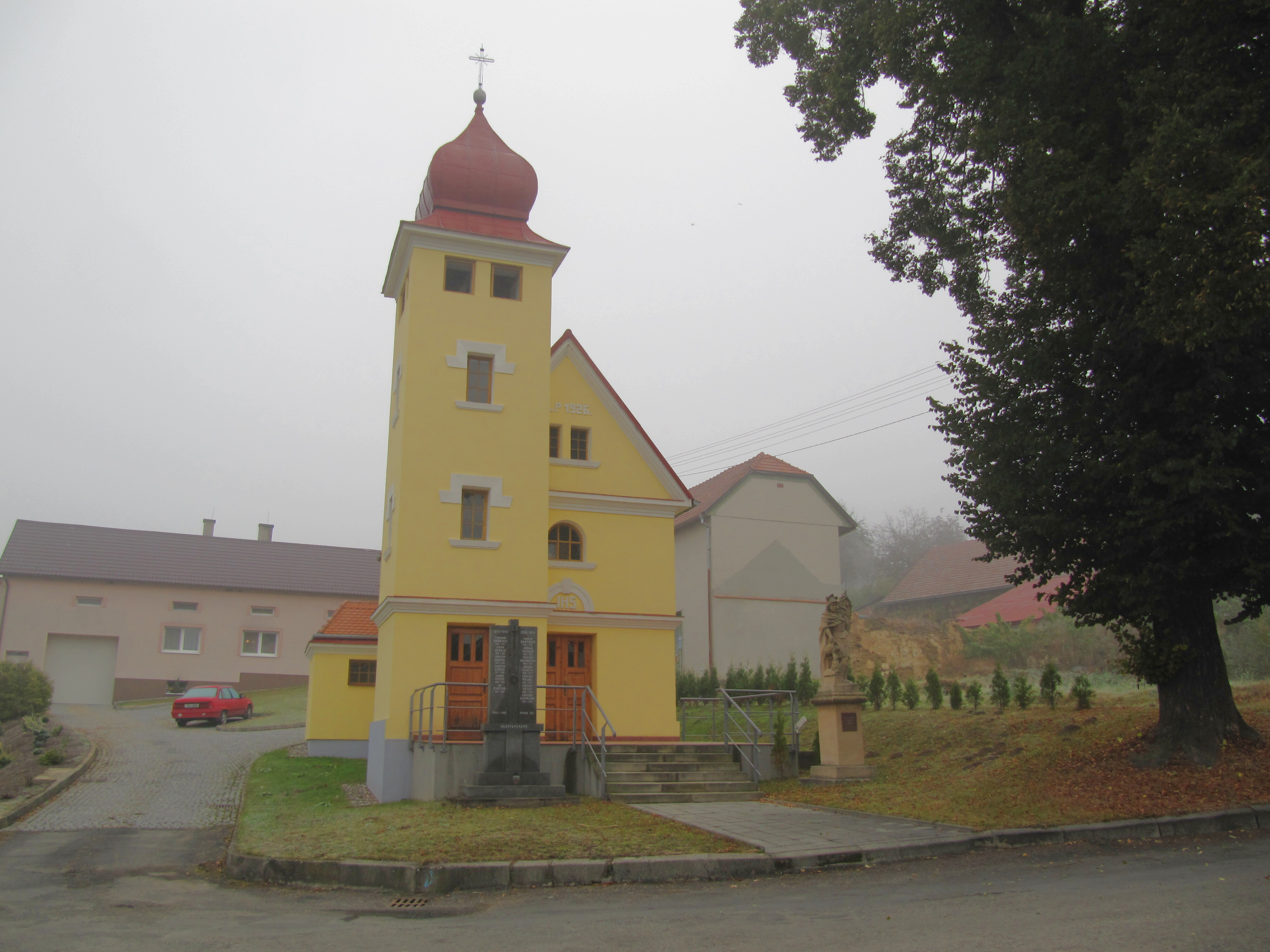 Bařice-Velké Těšany in Kroměříž District, Czech Republic, part Velké Těšany. Chapel of St. Florian from 1926.